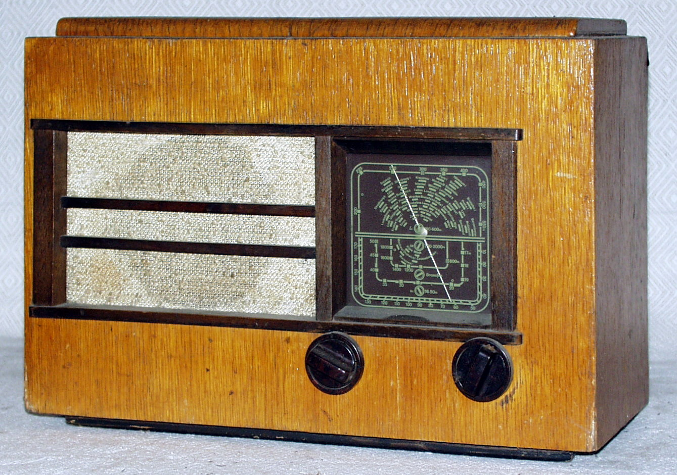 Radio "Mazur", manufacturer: "DIORA" (Poland), 1952-1956